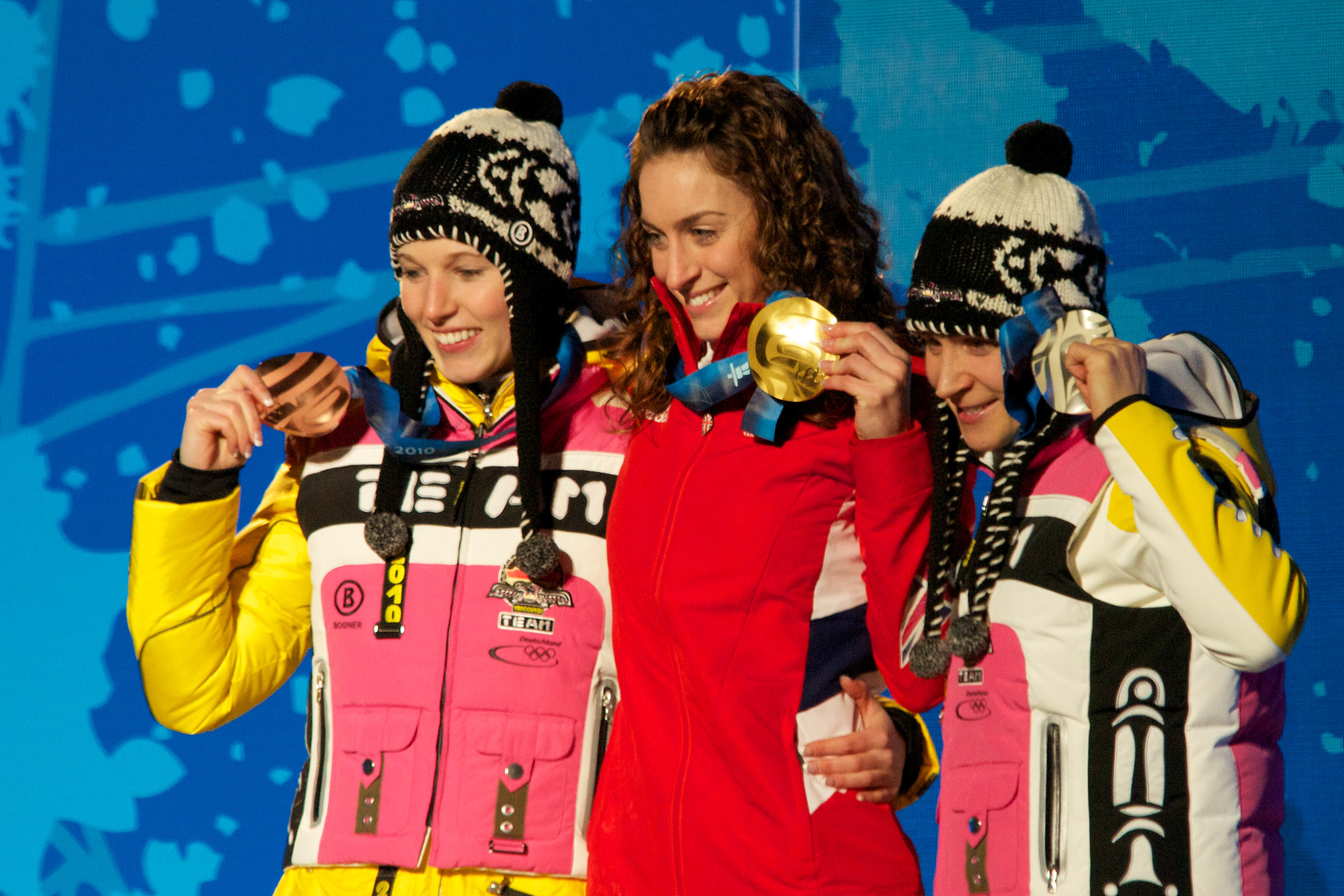 Kerstin Szymkowiak Amy Williams and Anja Huber. The Medal Ceremony at Whistler on Day 9 of the Vancouver 2010 Winter Olympics. The women's skeleton event.